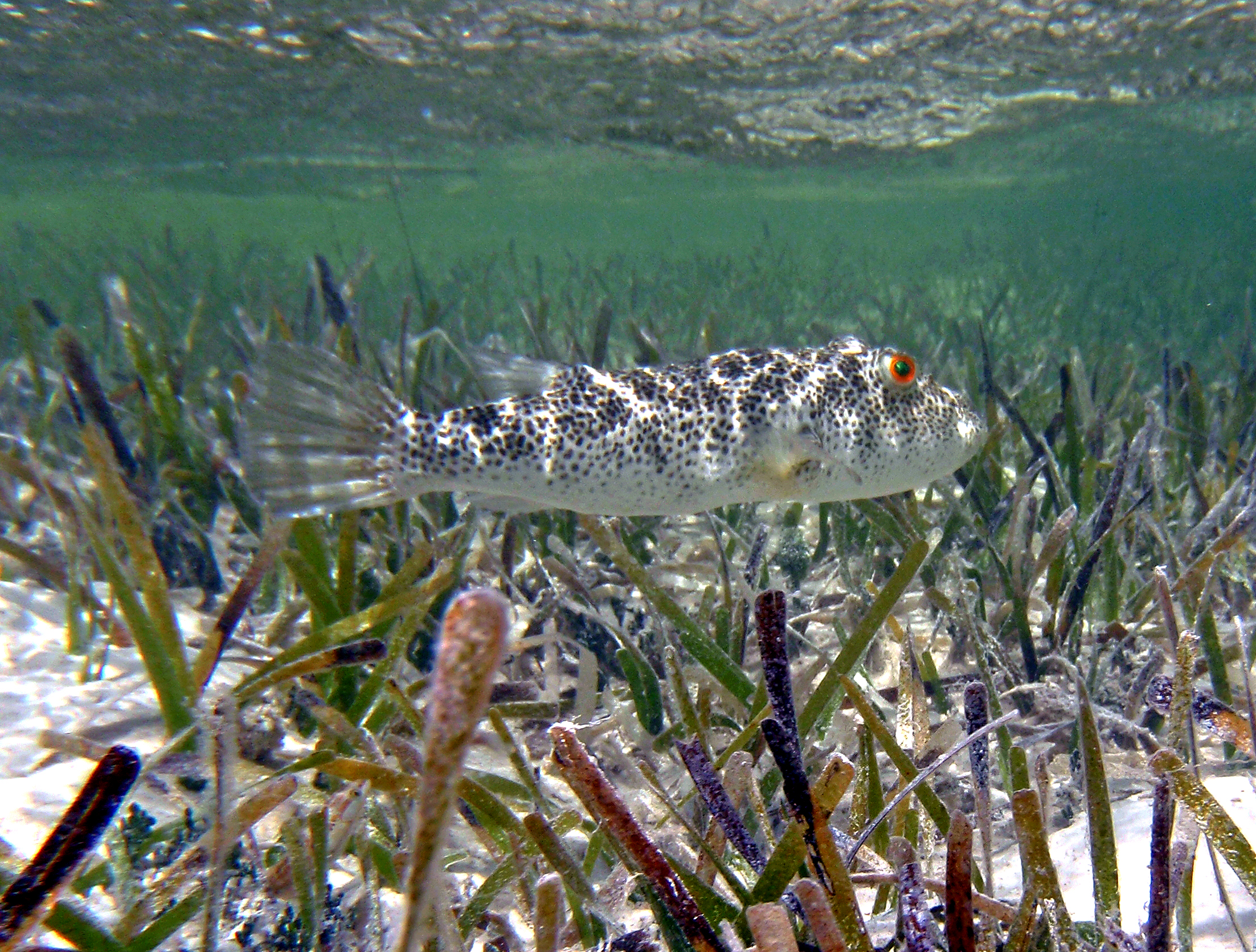 Sphoeroides testudineus (Linnaues, 1758) - checkered pufferfish over a estuarine seagrass seafloor. (photo taken by Mark Peter) Classification: Animalia, Chordata, Vertebrata, Actinopterygii, Tetraodontiformes, Tetraodontidae Locality: South Pigeon Creek estuary, southeastern San Salvador Island, eastern Bahamas